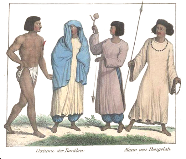 Nubians as seen by Frederic Caillaud, who entered Sudan together with the Egyptian invasion force in 1820. The Nubian at the far right is specified as a habitant of Dongola. Coloured by Goedsche and others.